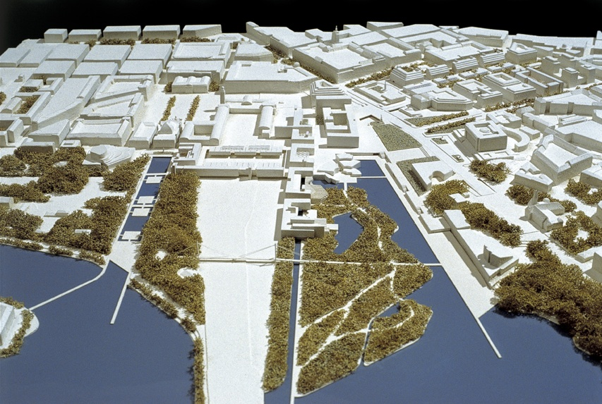 Helsingin keskustasuunnitelma - Arto Sipinen